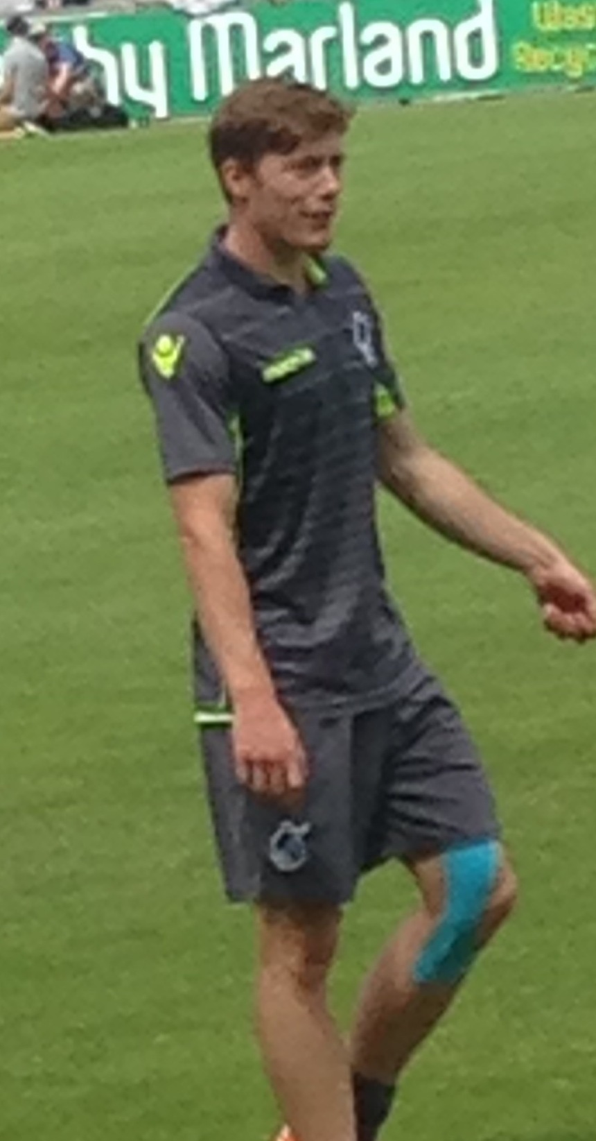 Luke James at Bristol Rovers in July 2016